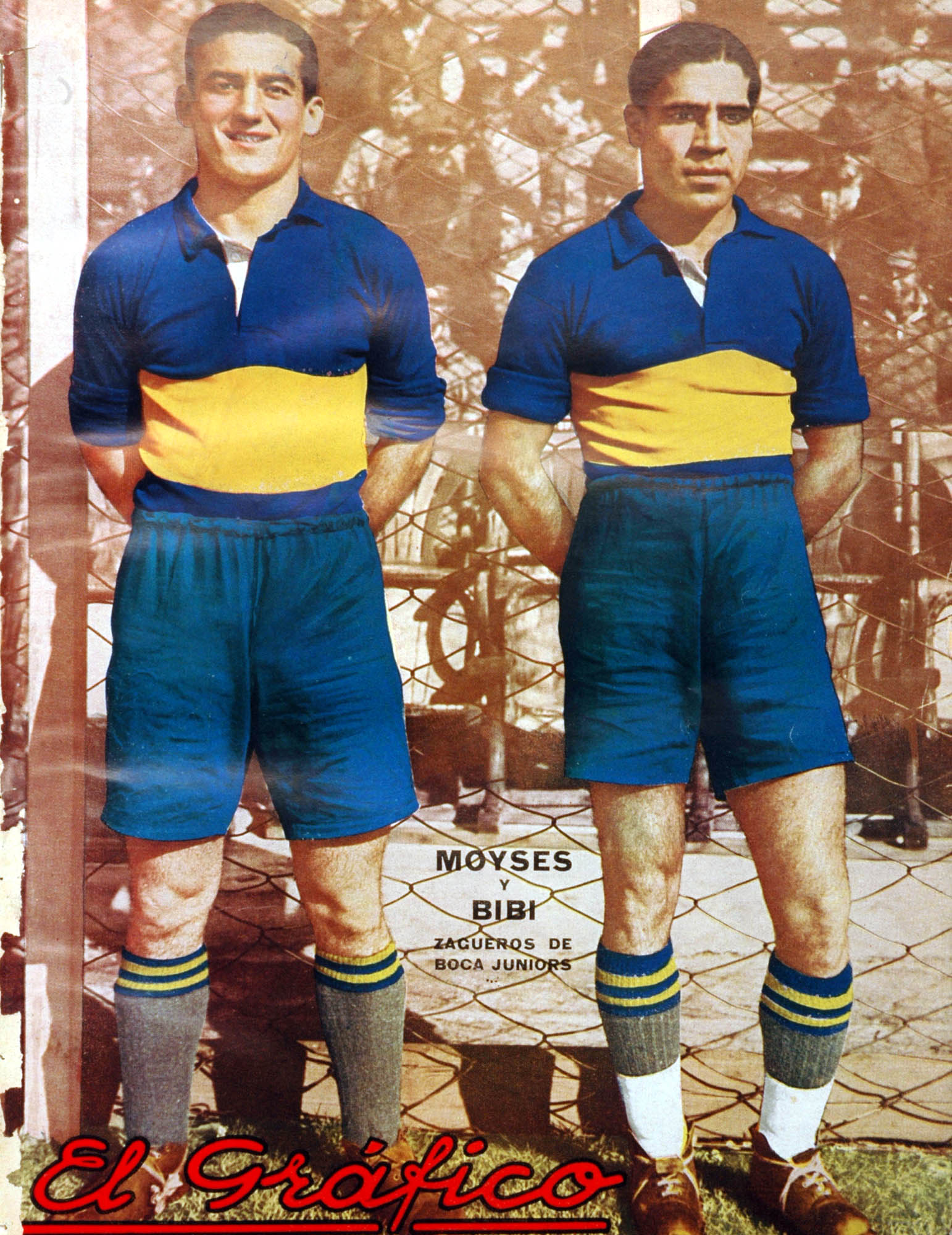 Brazilian players in Boca Juniors: Moisés Alves do Rio and Felipe Jorge Bibí.